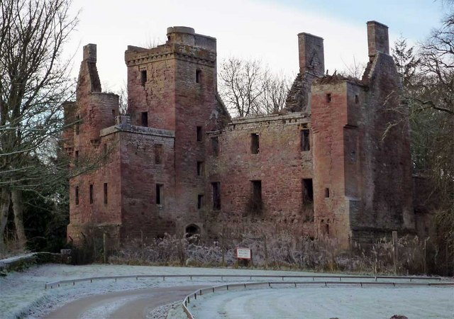 The ruins of Redcastle